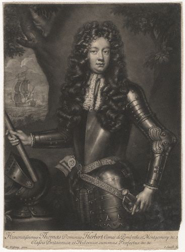 Thomas Herbert, 8th Earl of Pembroke (c1656-1733)